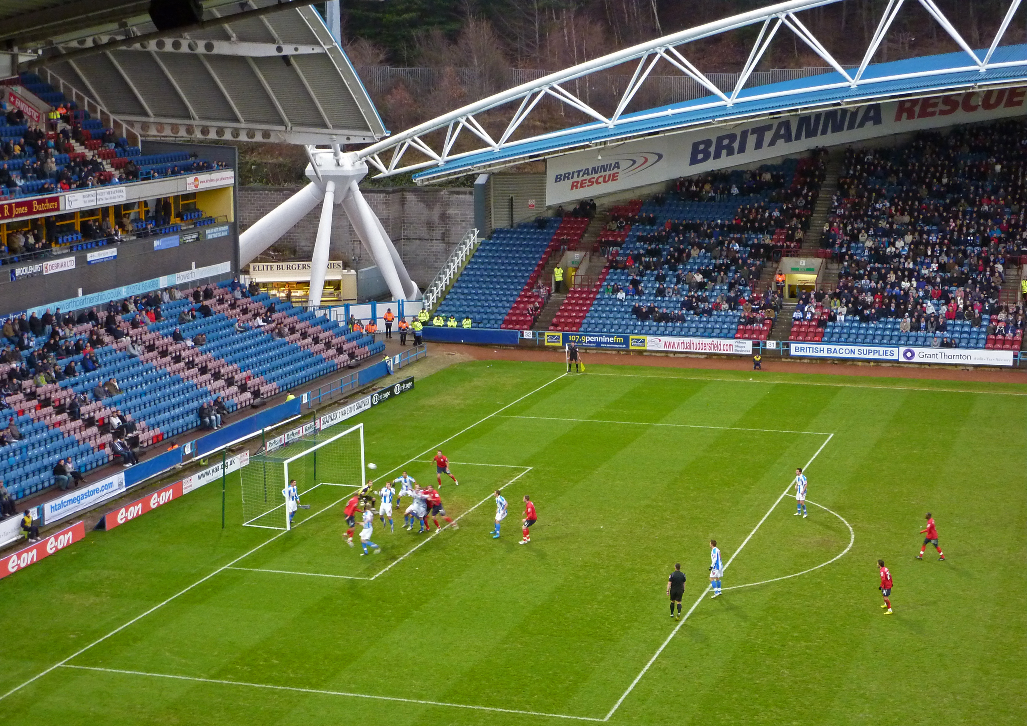 We went to the Galpharm Stadium for the 3rd round of the FA Cup Game between Huddersfield and Albion. Town lost (so at least Dan was happy)